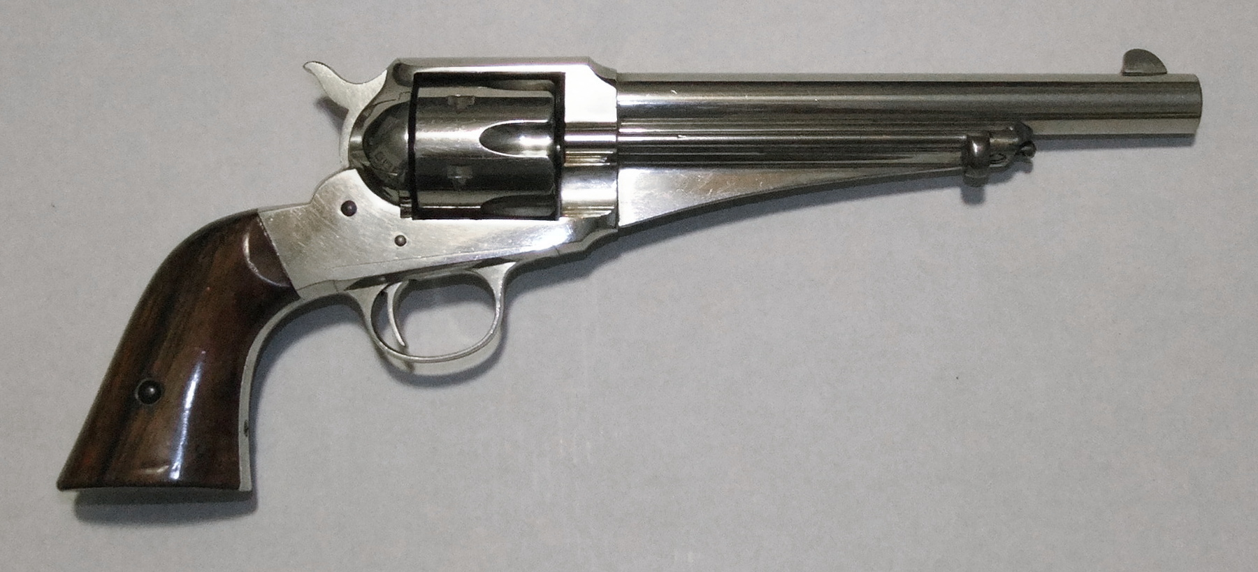 Original Remington 1875 - near mint condition